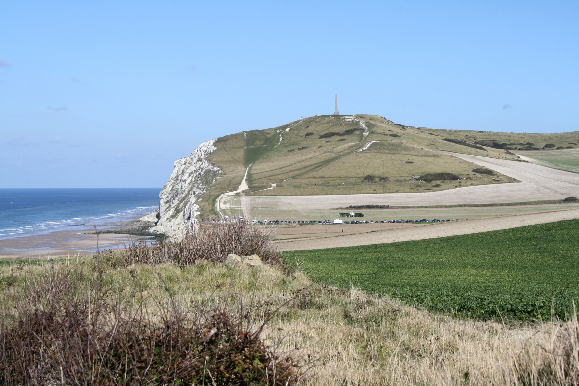 Cap Blanc Nez scenic view.